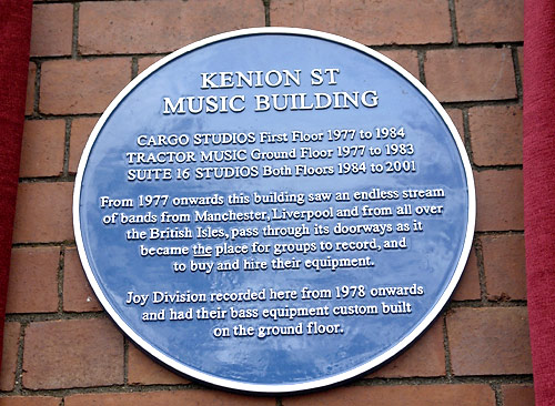 Commemorative plaque for Kenion St Music Building including Joy Division